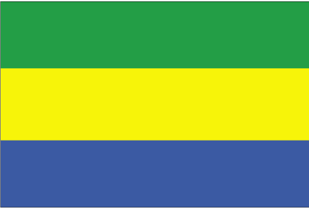 Original image from CIA World Fact Book, 2004